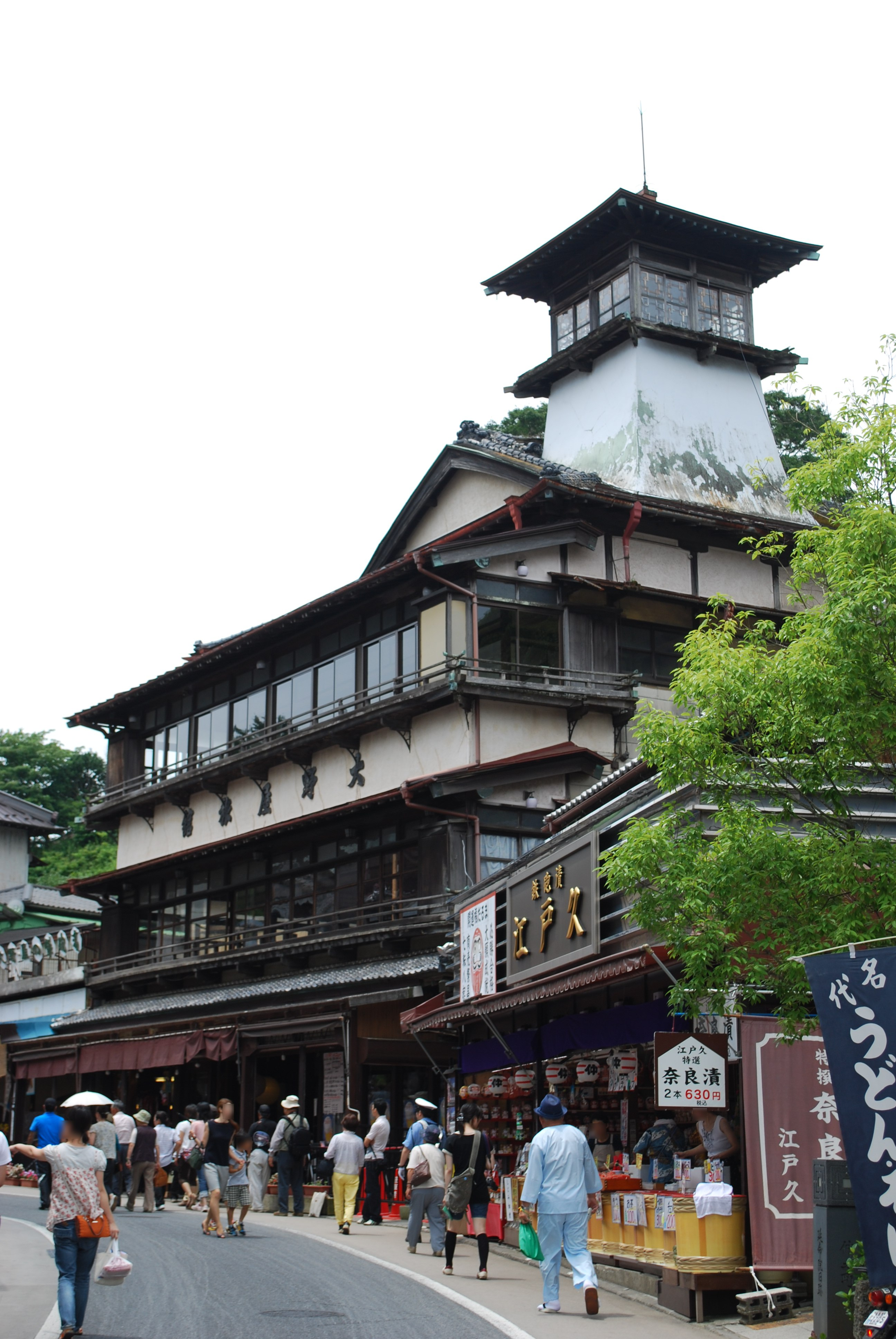 Onoya Japanese style hotel, Narita-city, Japan. Wooden 3 stories. 1935 construction.